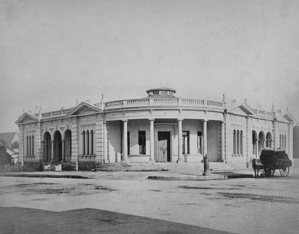 Photographer: unidentified Location: Brisbane Description: F. D. G. Stanley, the colonial architect, was responsible for the design of the Registrar General's Office at the corner of Queen and George streets, Brisbane. This building was later demolished to make way for the Treasury. View this page at the State Library of Queensland Information about State Library of Queensland’s collection